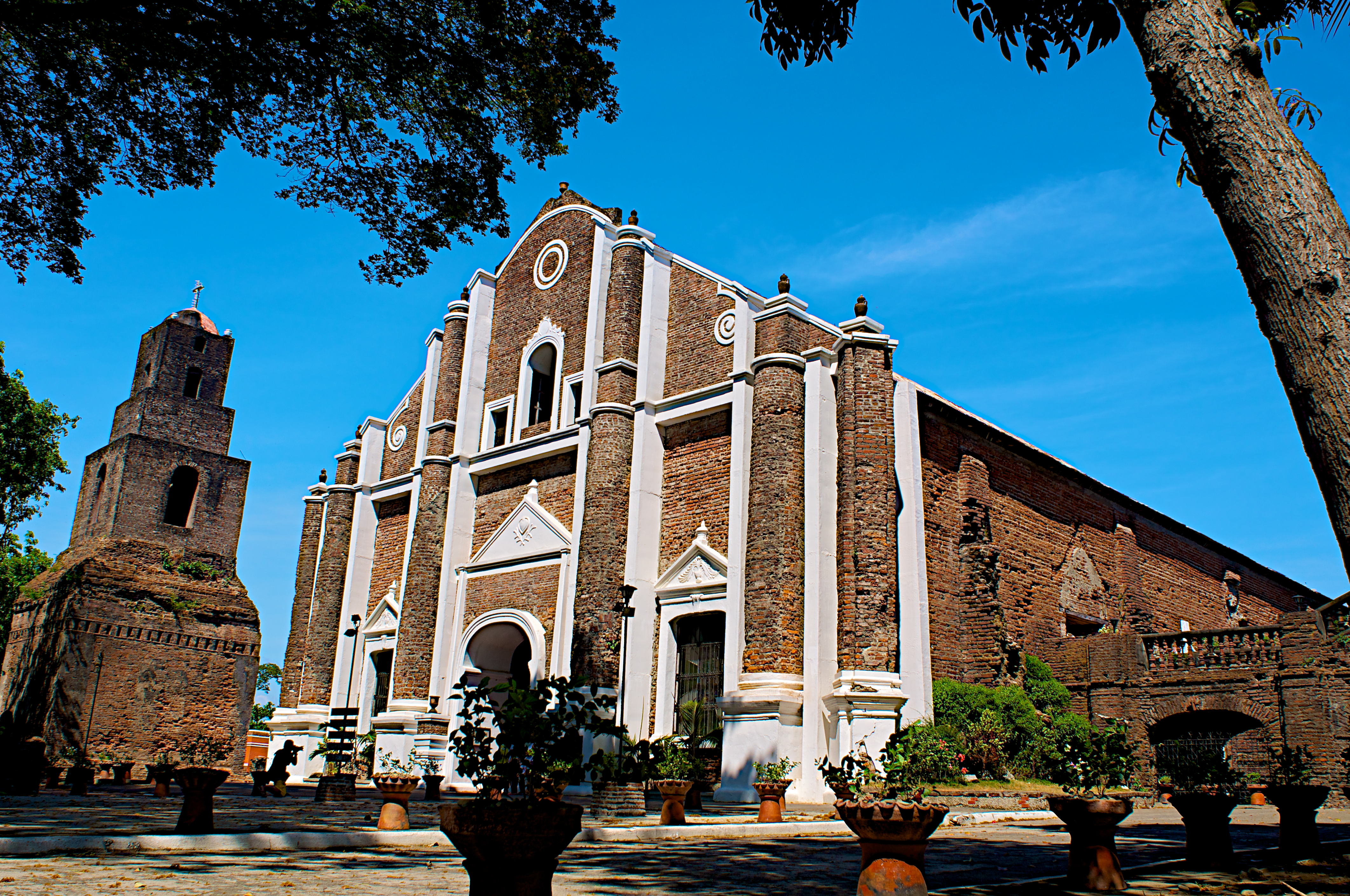 A beautifully revived church of Ilocos Norte.